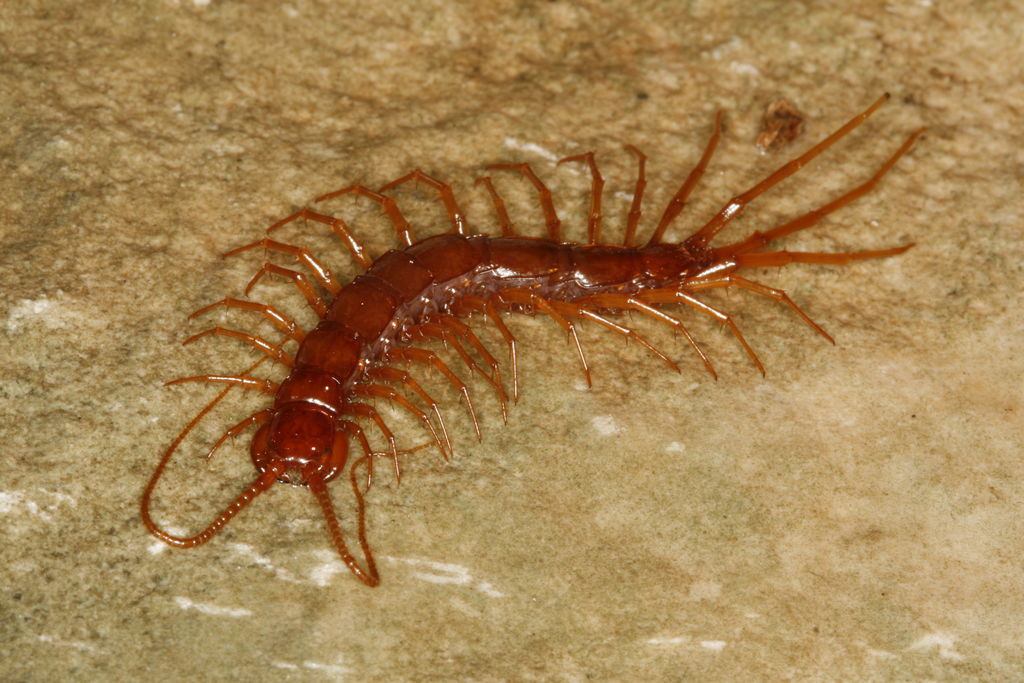 Habitus of Eupolybothrus cavernicolus Komerički & Stoev, male paratype, ex situ.